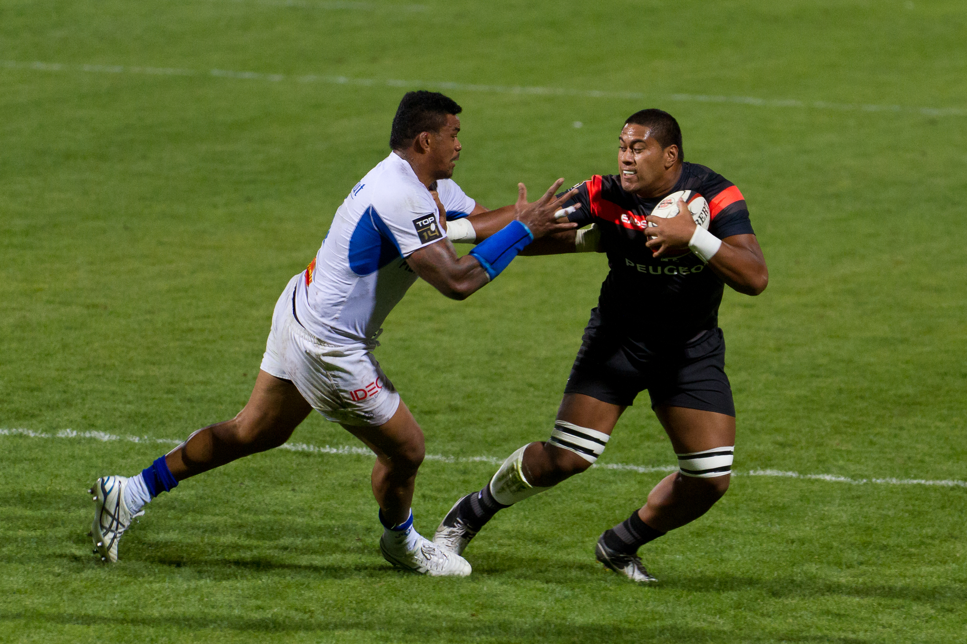 Edwin Maka performs a fend.